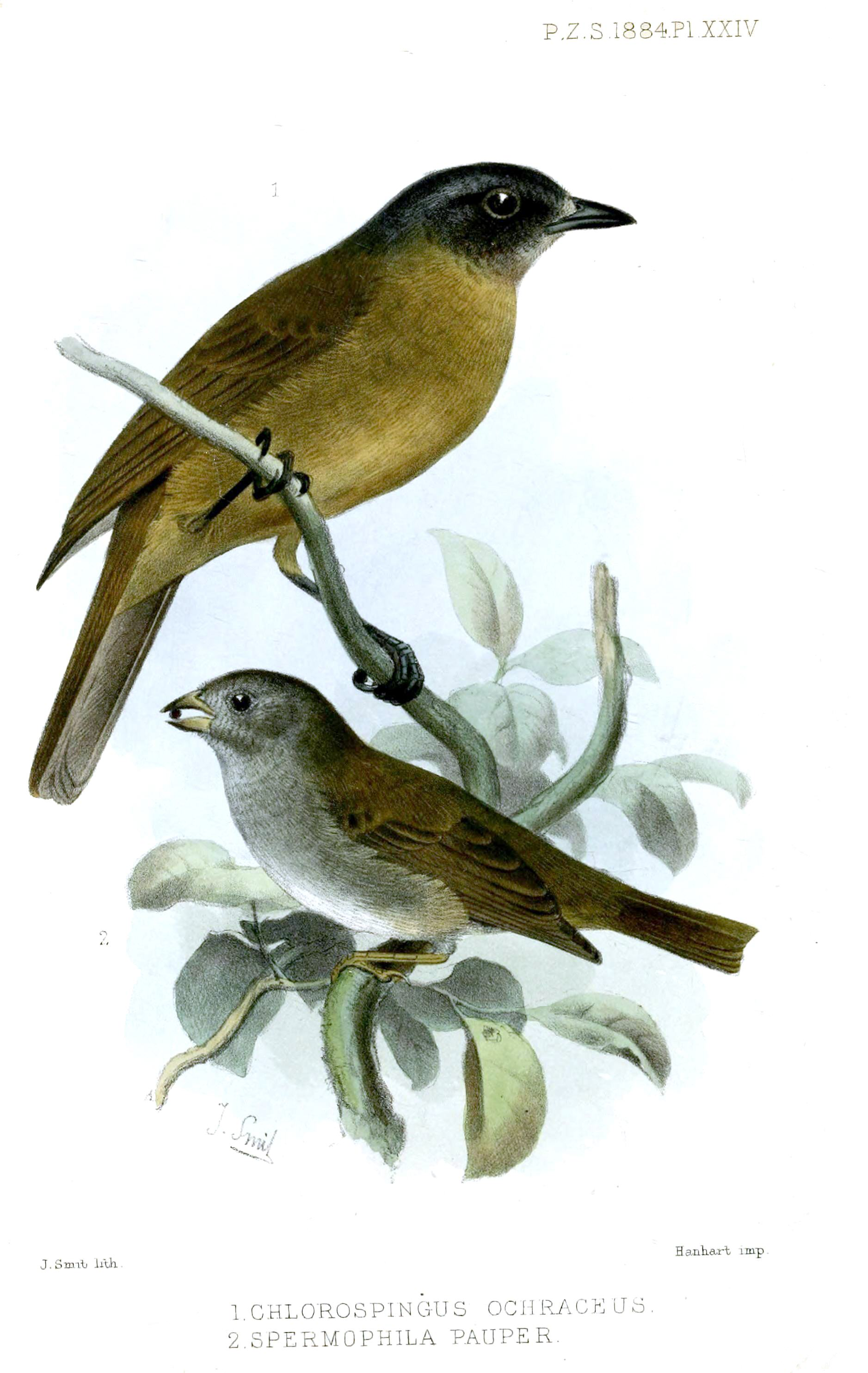 Western Hemispingus, adult female (top); Dull-colored Grassquit, adult male (bottom)